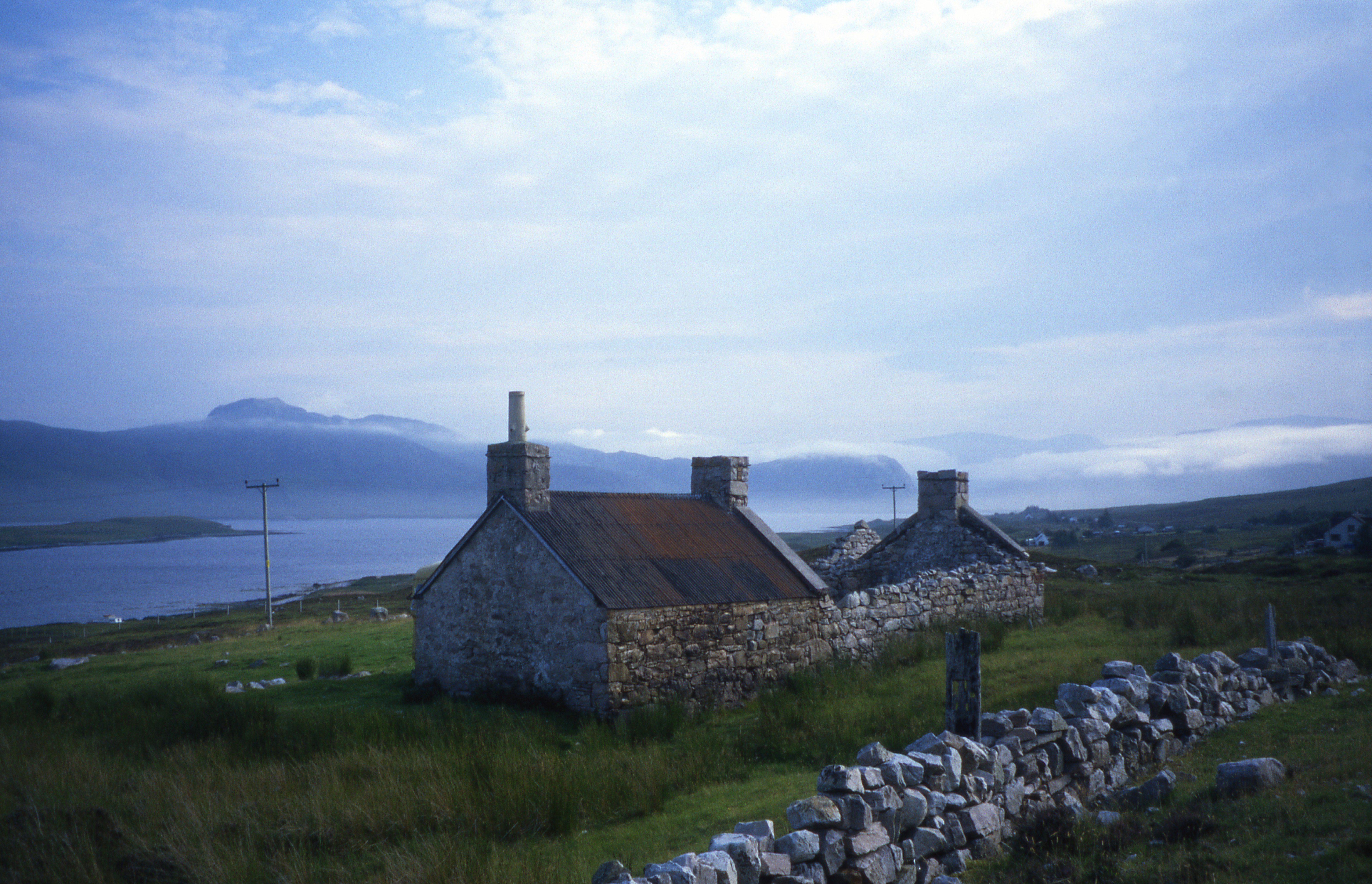 Loch Eriboll from northwestern slope